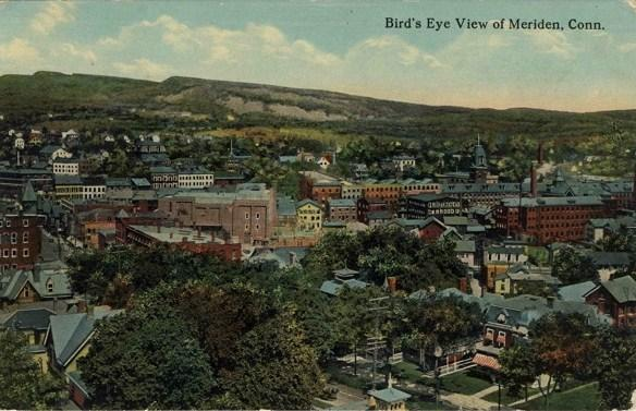 Postcard picture: Aerial view of Meriden; postcard mailed about 1914; store Web page states: "CT Meriden, Birds Eye Town View, DB PM 1914 /7354"